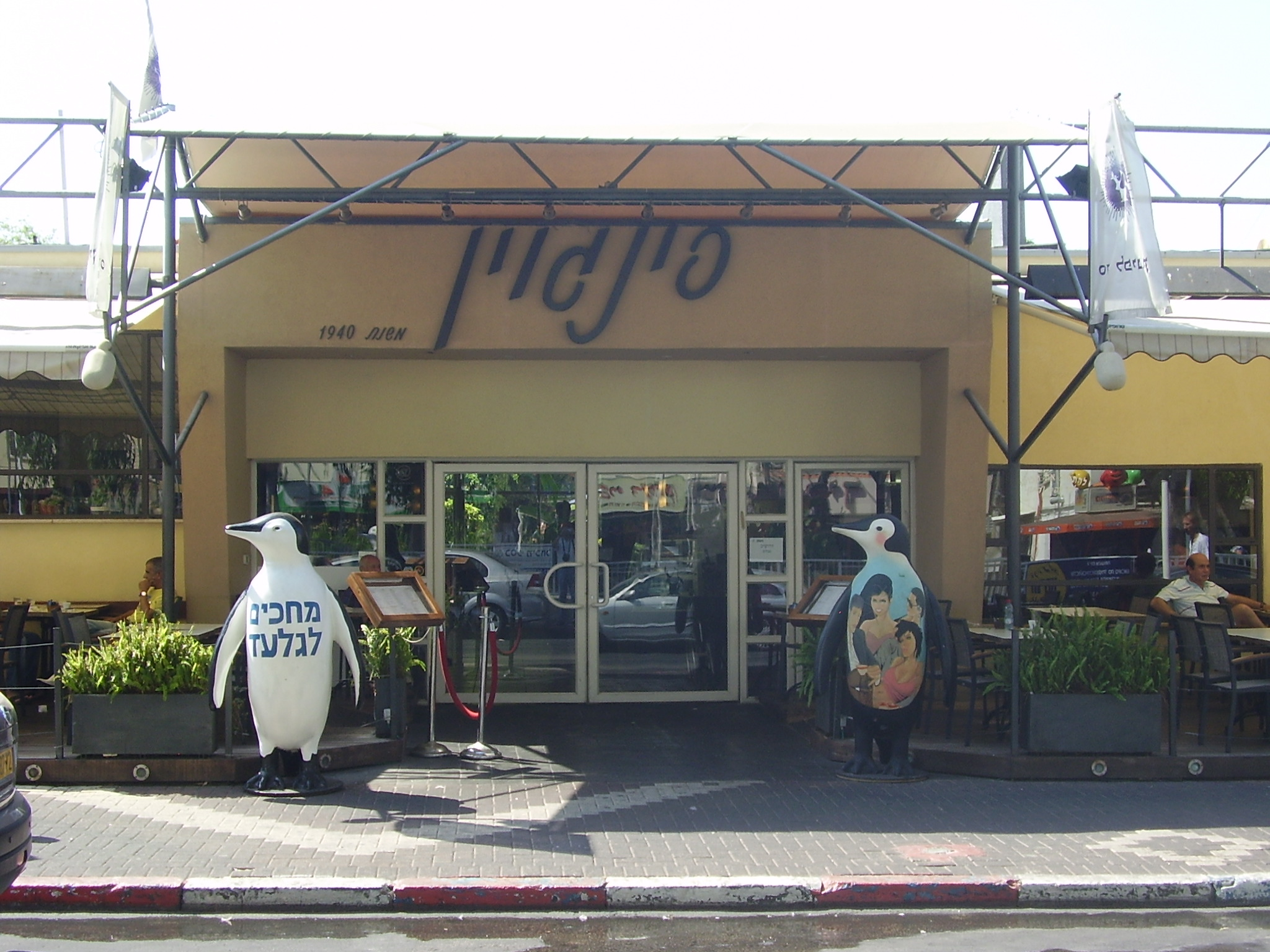 Nahariya Penguin Cafe